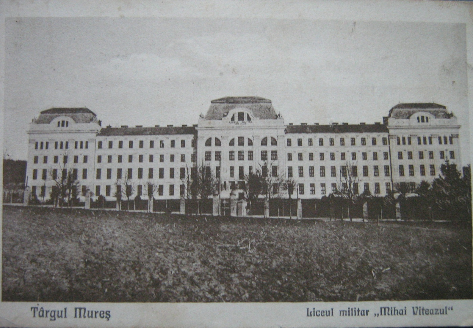 A postcard showing the Military School "Mihai Viteazul", today the University of Medicine and Pharmacy in Targu Mures, Romania